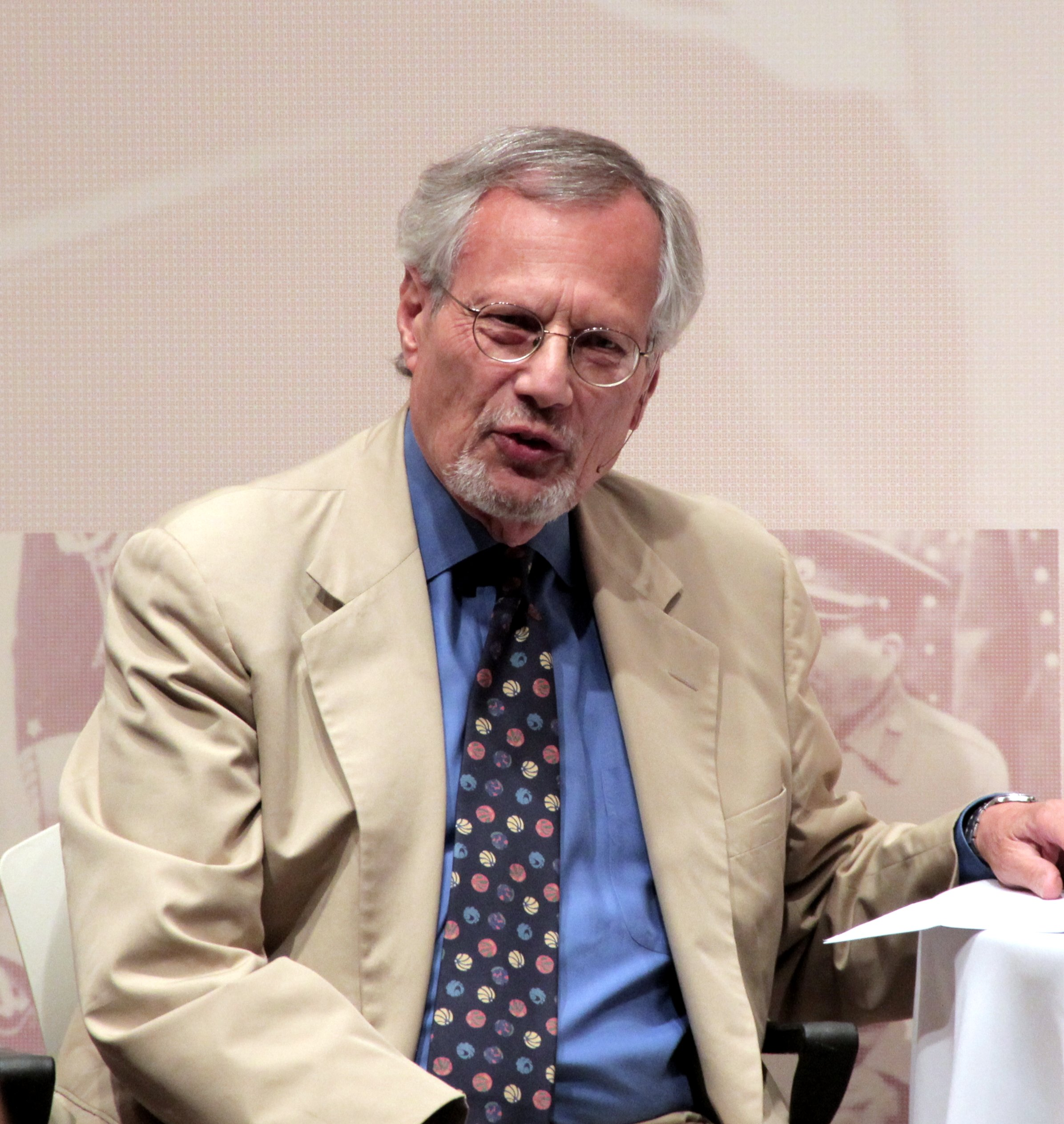 Jack Rosenthal at Roosevelt House for a discussion of Douglas Brinkley's "The Nixon Tapes"